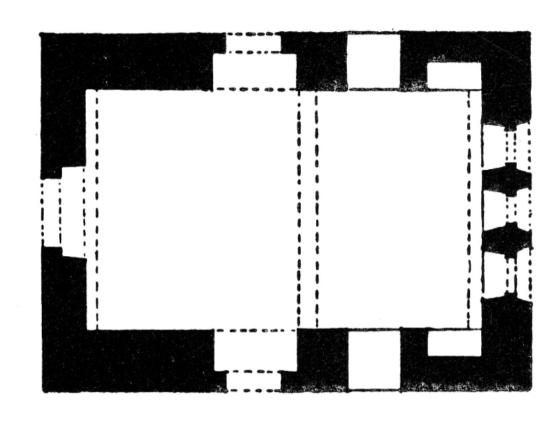 Royal Chapel of Agia Aikaterini (St. Catherine), Pyrga